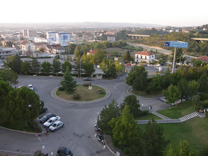 Chieti